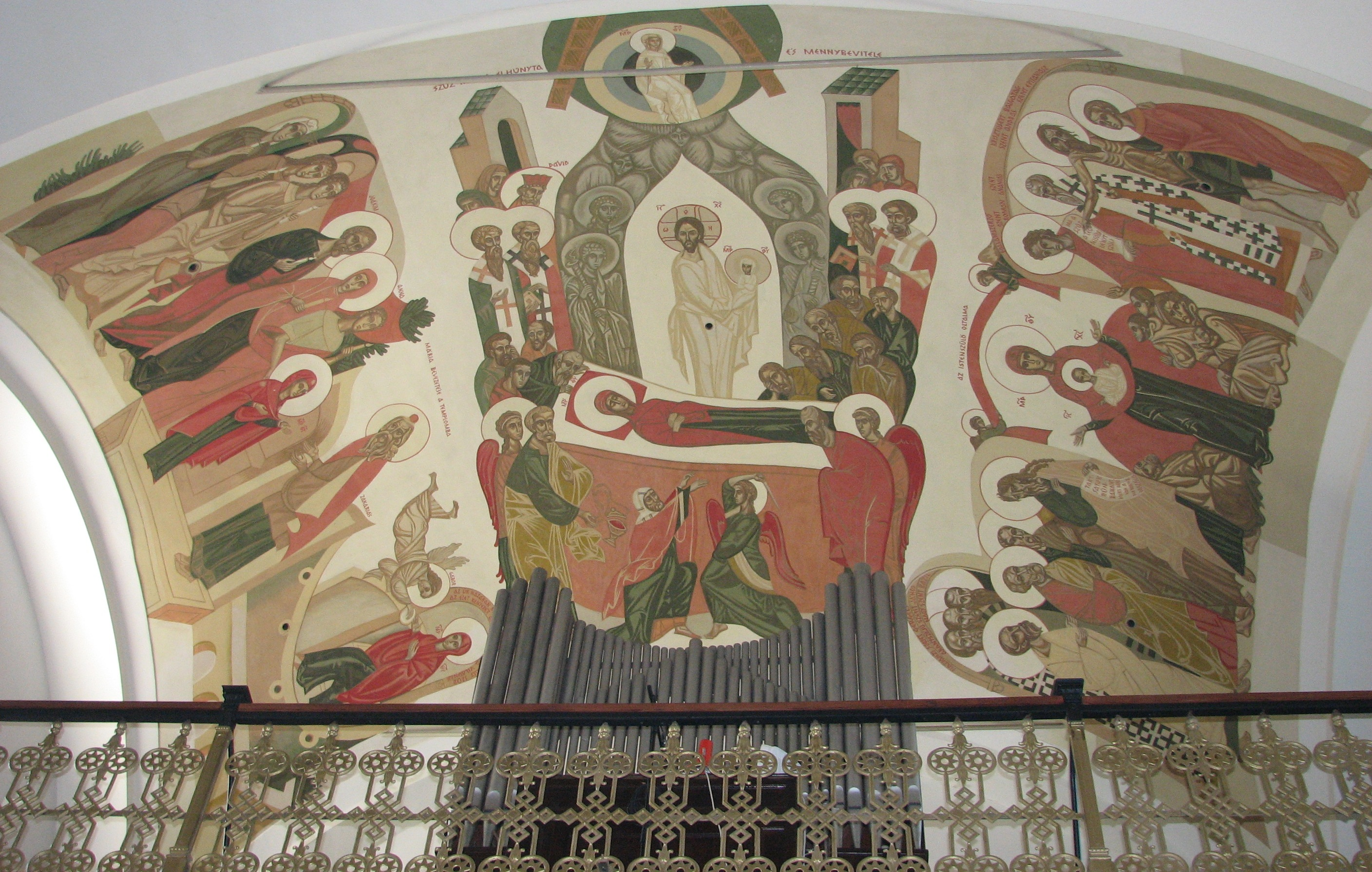 The fresco on the ceiling of the Greek Catholic Cathedral of Hajdúdorog, Hungary. There're three panels on the cathedral's ceiling that have large frescos in Byzantian style. This is placed close to the main entrance of the cathedral above the organ and the main choir. It depicts three scenes connected to the Virgin Mary: On the left side of the picture there's the scene of the Entry of Mary into the Temple which is the catholic feast that the cathedral is dedicated to. In the middle you can see a large picture of the Dormition of Mary and her Entry to the Heavens. On the right side you can see the scene of The Protection of Mother of God. The fresco was painted by László Puskás and his wife who were taught in Lviv, Ukraine with casein paint. The fresco was sanctificated by Szilárd Keresztes, bishop of Hajdúdorog in November 1990.